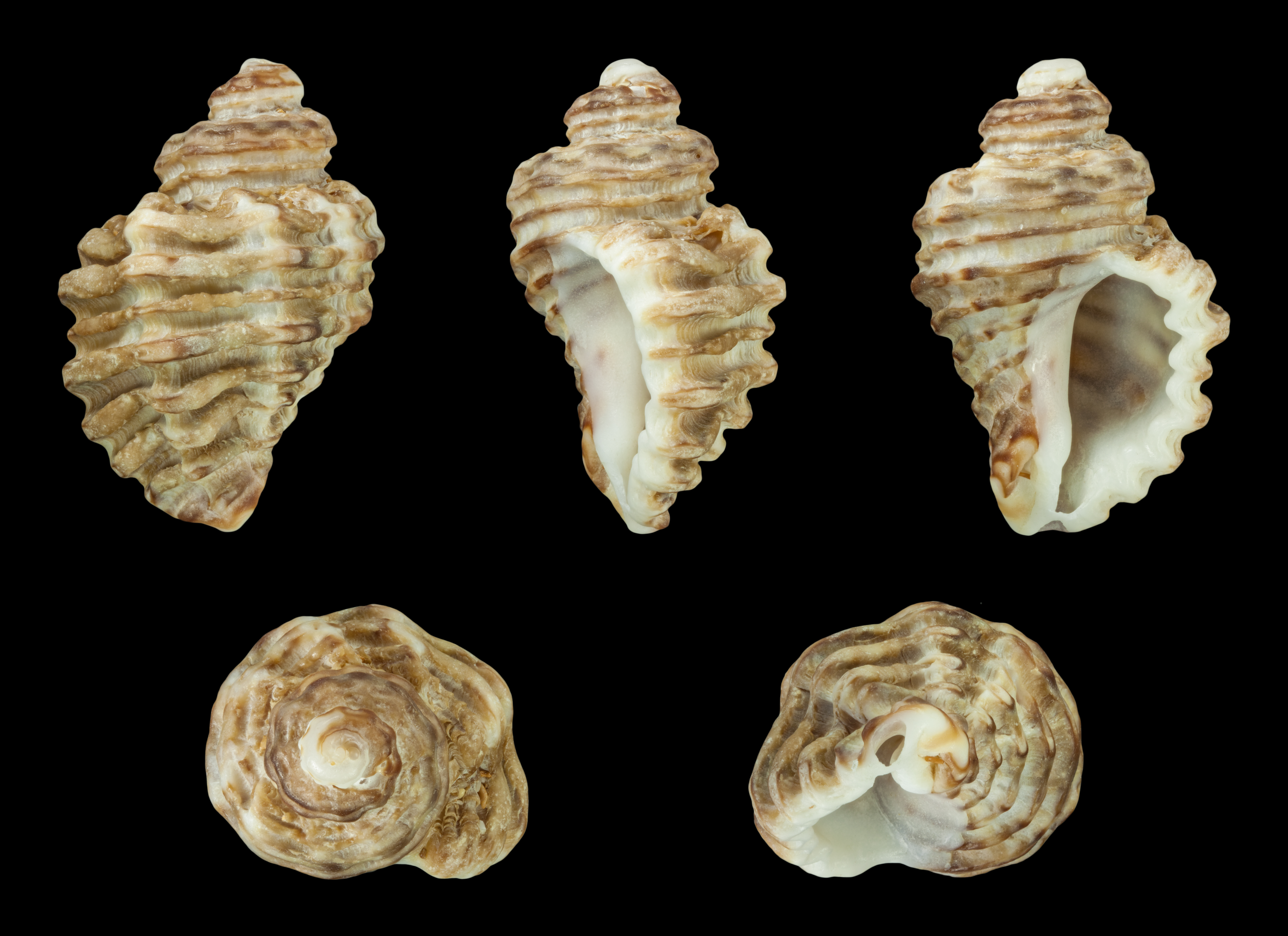 Ocenebra erinaceus torosa (Lamarck, 1816); length 3.1 cm; Originating from Oualidia, Morocco; Shell of own collection, therefore not geocoded.